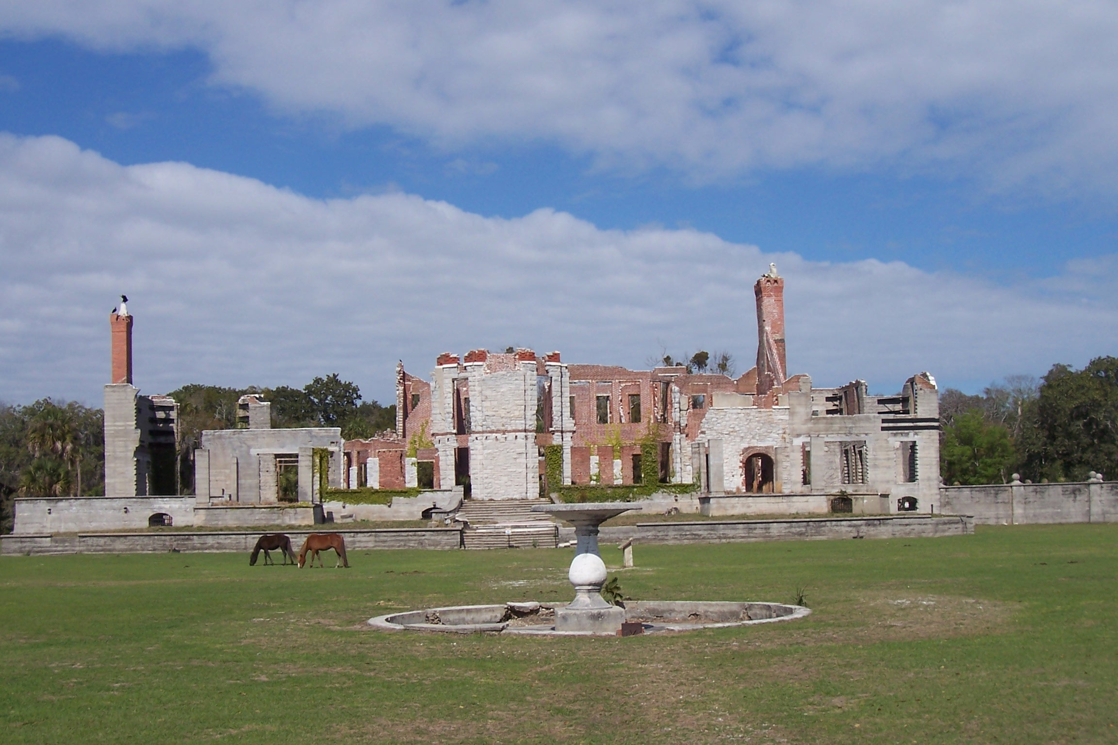 Dungeness Ruins, Ga